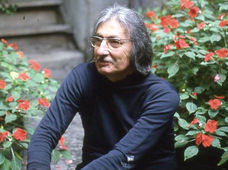 Picture of Paul J. Revel